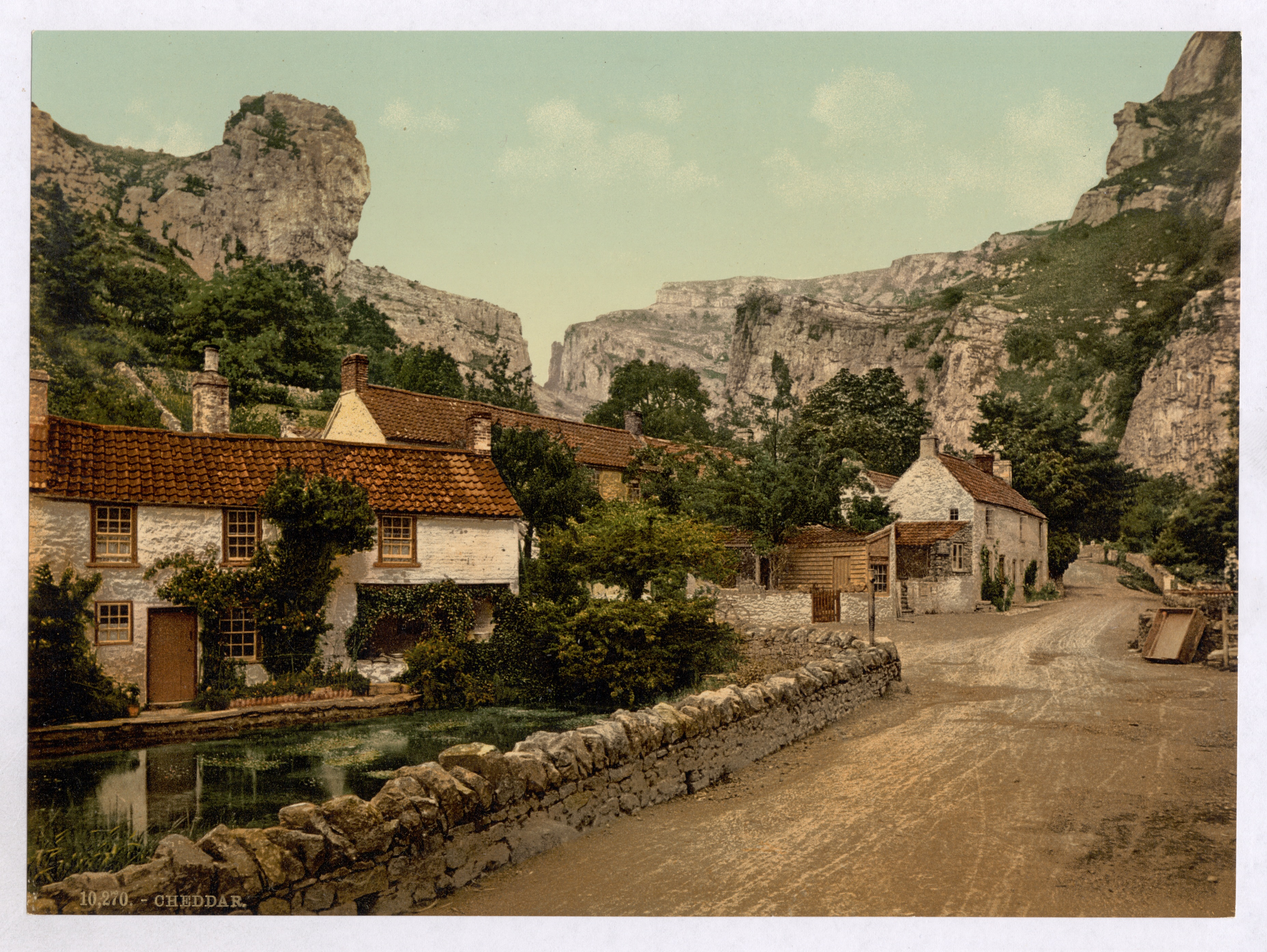 Forms part of: Views of the British Isles, in the Photochrom print collection.; More information about the Photochrom Print Collection is available at Title from the Detroit Publishing Co., Catalogue J-foreign section, Detroit, Mich. : Detroit Publishing Company, 1905.; Print no. "10270".